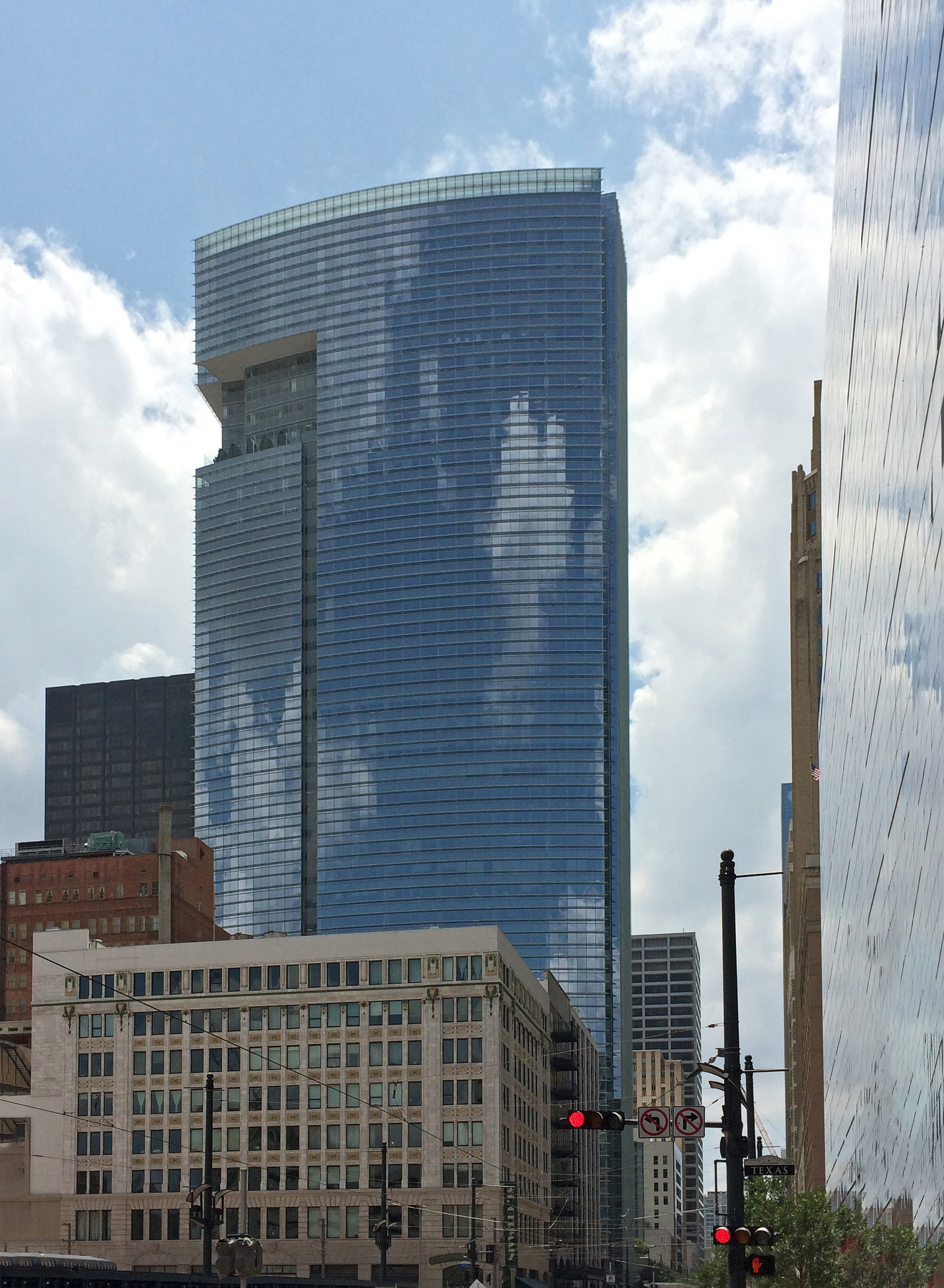 BG Group Place (formerly known as MainPlace) photographed from the northeast on Main Street in Downtown Houston in Texas. Photographed by Quercus montana